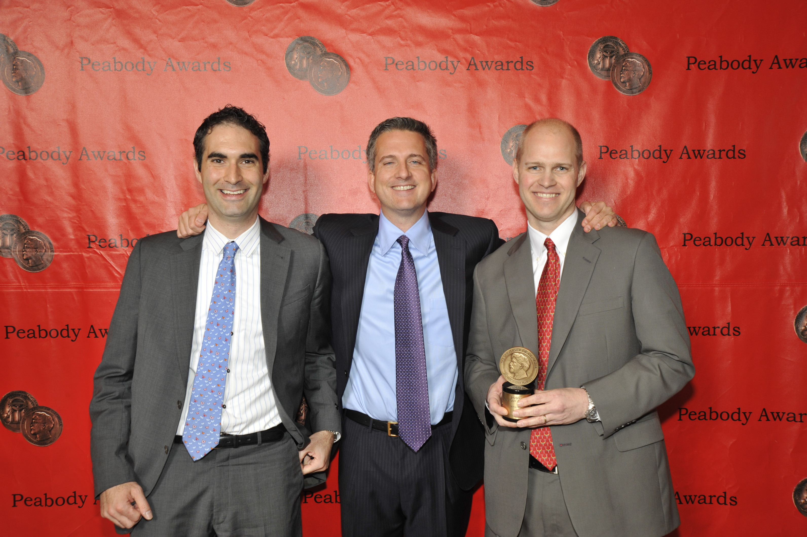 PHOTO CREDIT: ANDERS KRUSBERG / PEABODY AWARDS Connor Schell. Bill Simmons and John Dahl with the Peabody for 30 for 30 70th Annual Peabody Awards Luncheon Waldorf=Astoria Hotel May 23, 2011